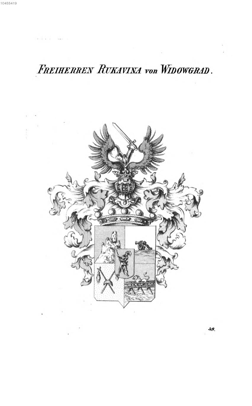 Coat of arms of the Rukavina of Vidovgrad noble family, Kingdom of Croatia, Habsburg Empire